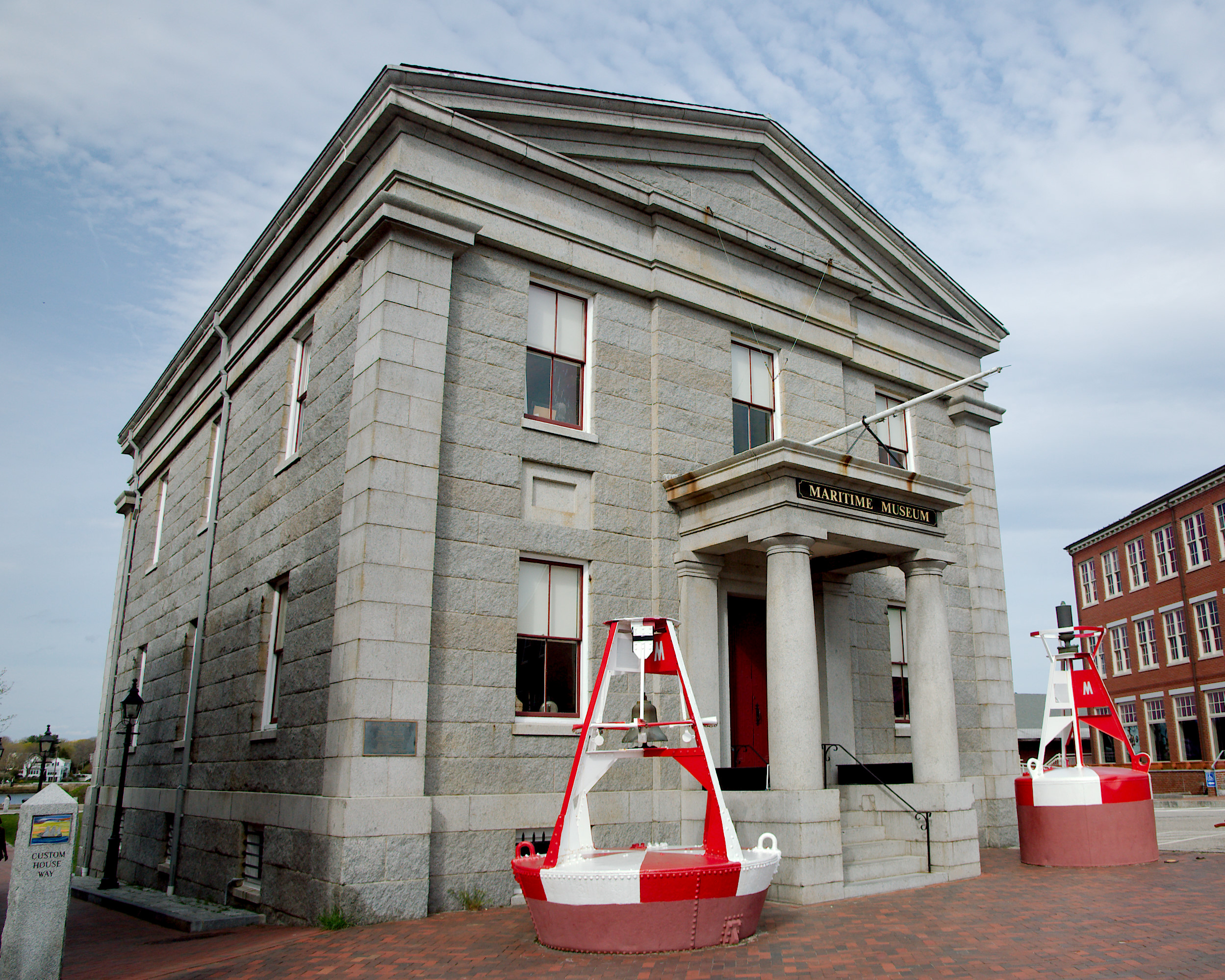 Custom House Maritime Museum in Newburyport, Massachusetts. Built in 1835, it was designed by Robert Mills, architect of the Washington Monument and U.S. Treasury Building.